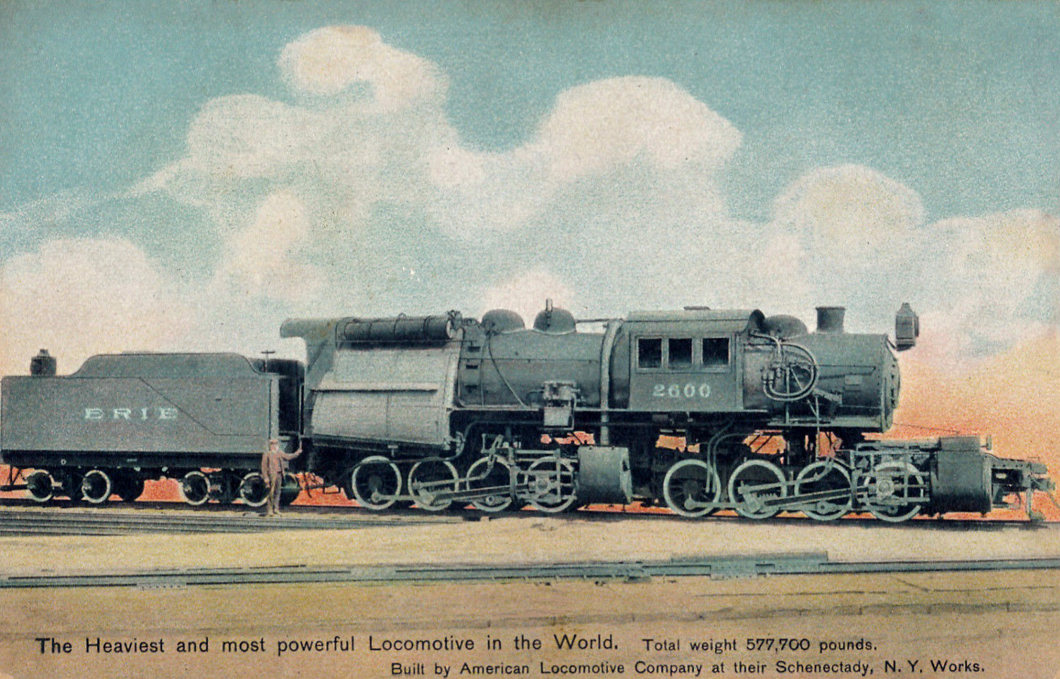 Postcard photo of Erie L-1 2600. These locomotives were once the largest locomotives in the world.